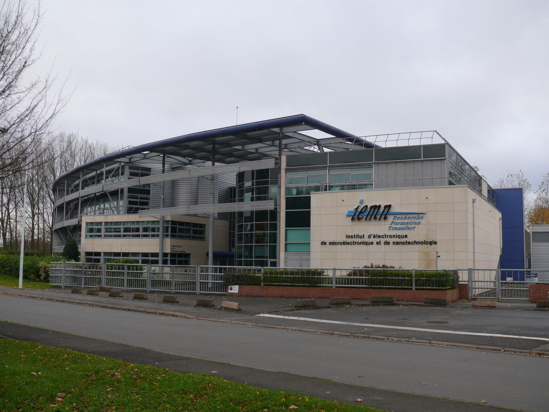 IEMN institute, in Villeneuve-d'Ascq (Nord, France)